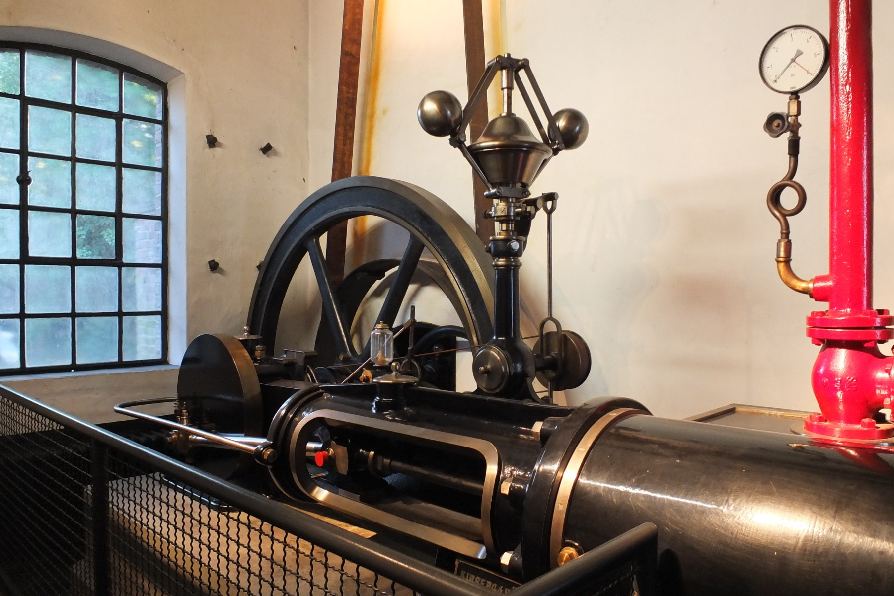 Steam engine made in 1876 by Kirberg & Hüls, Hilden/Germany for the local distillery, now part of Wilhelm-Fabry-Museum, Hilden